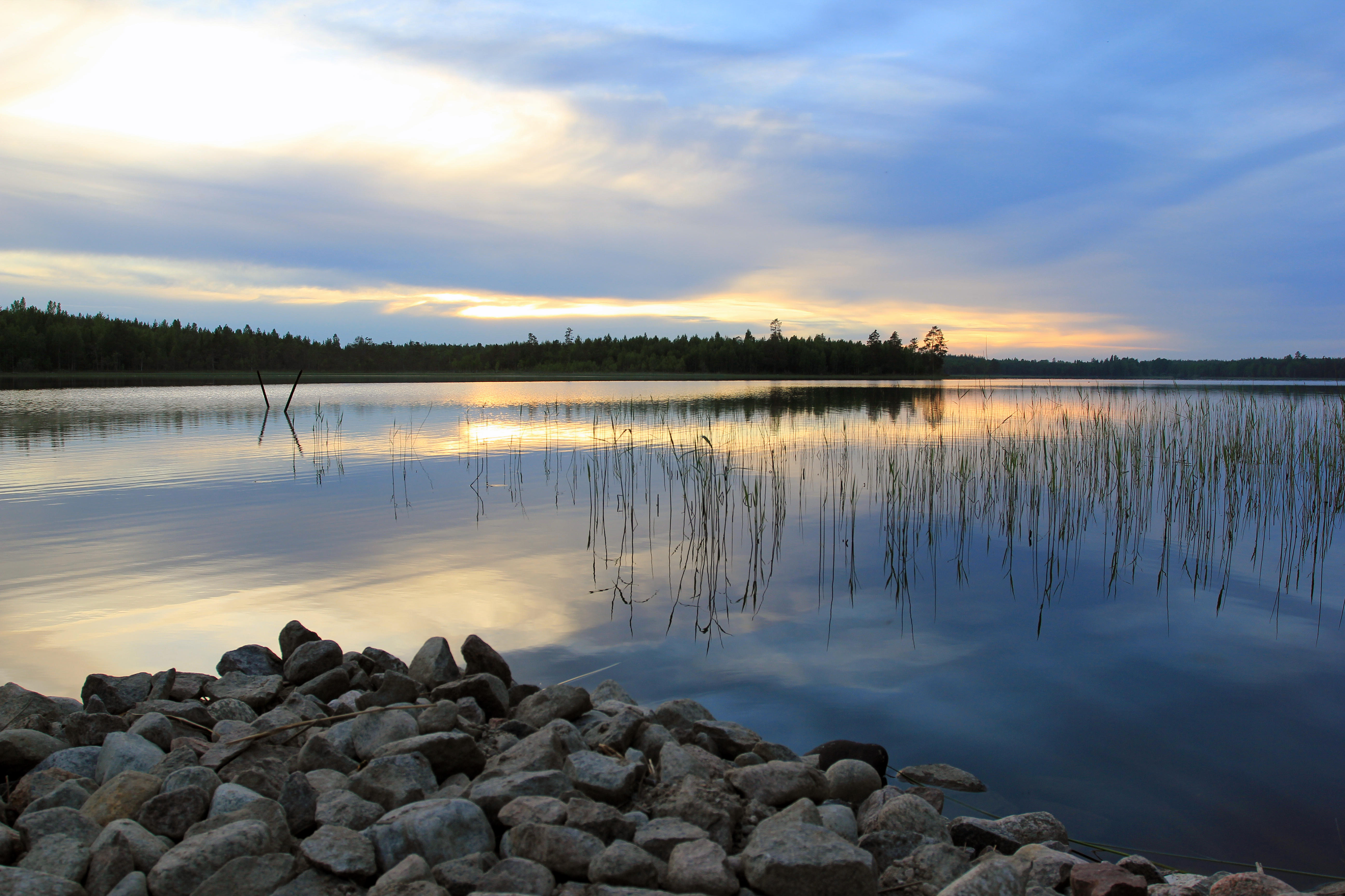 Lake Mellansjön, Gävle Municipality, Sweden, in sunset.